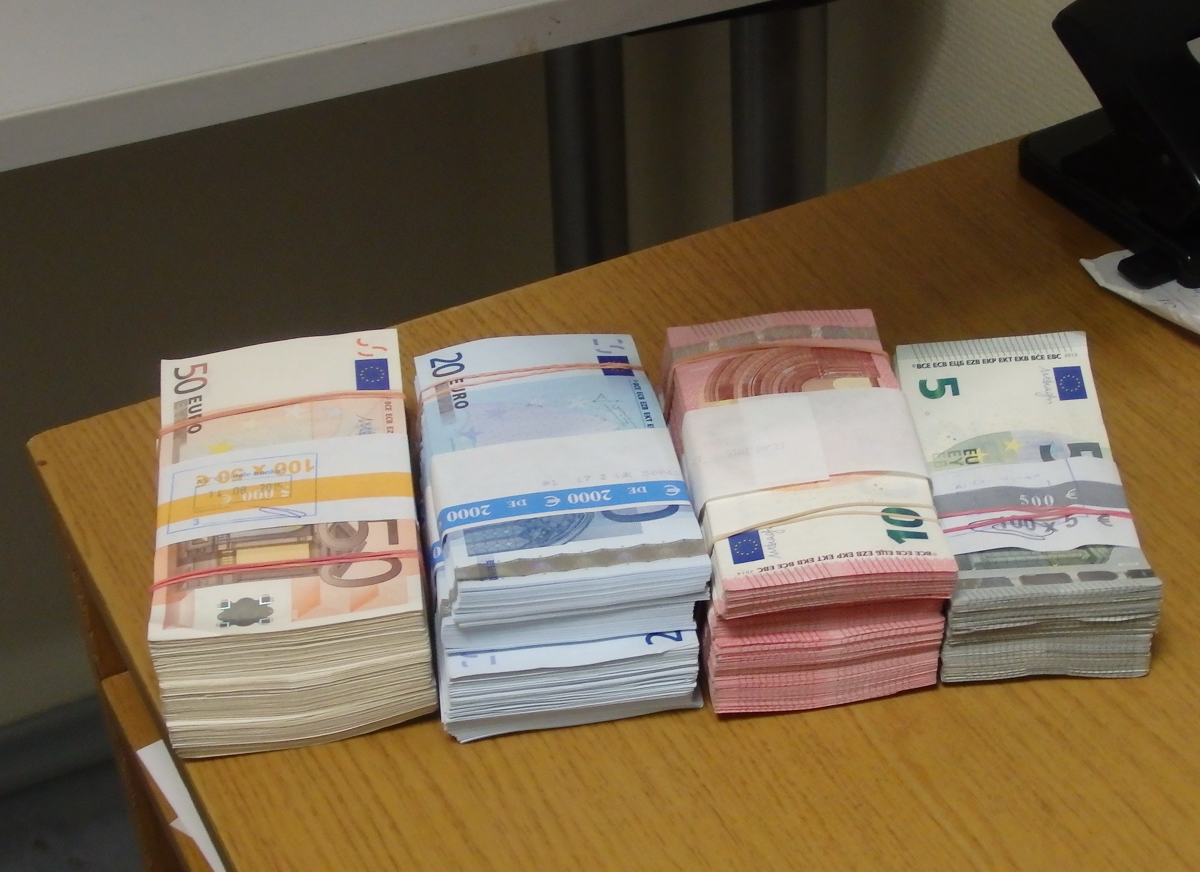 5, 10, 20 and 50 euro banknotes